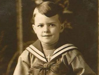 A circa 1912 photograph of puppeteer and educator Bernard H. Paul (1907-2005).